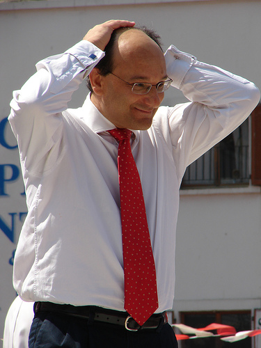 Chief Minister of Gibraltar Peter Caruana at the 2007 Gibraltar National day.